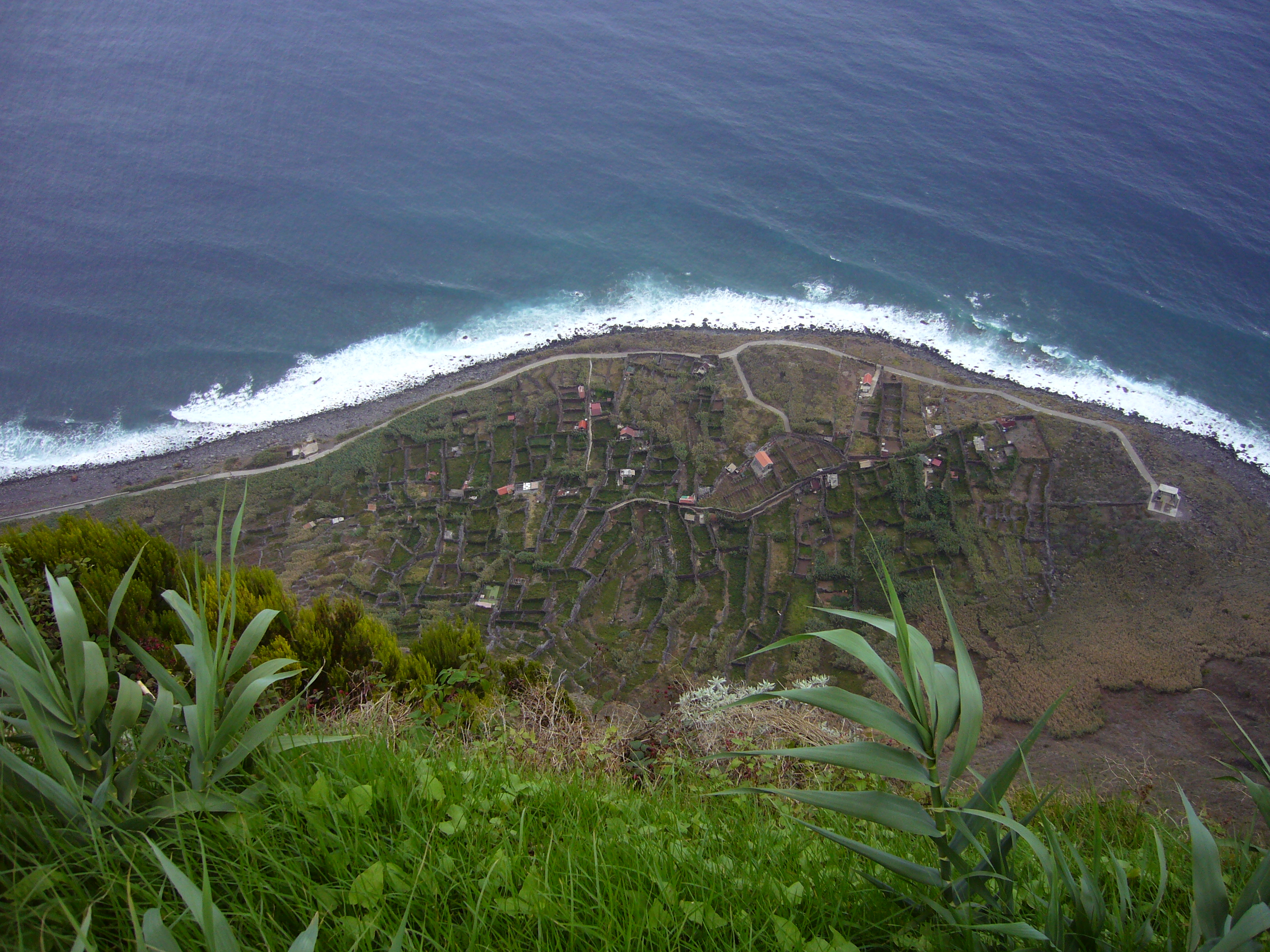 Lower station of the cableway by Achadas da Cruz - Madeira. Surrounding fields are known as Fajã da Quebrada Nova